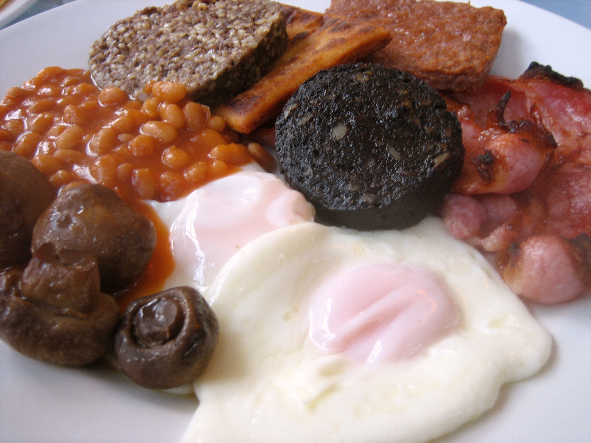 Scottish breakfast - eggs, mushrooms, beans, haggis, black pudding, bacon, lorne sausageScottish breakfast